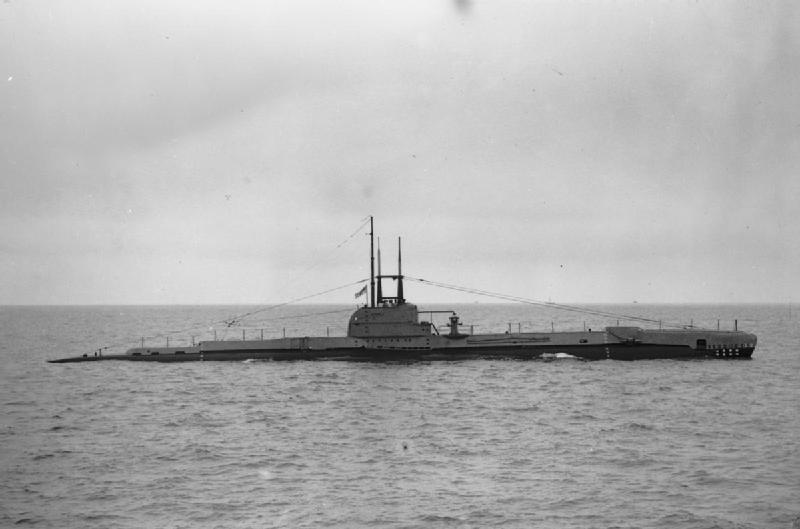 British S class submarine HMSM SEAWOLF underway.